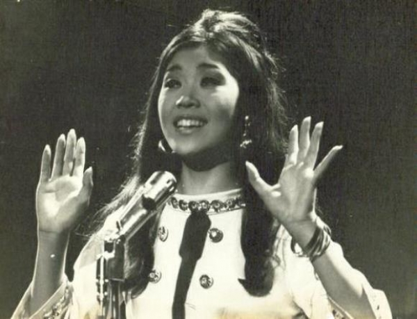 Rosa Miyake in the 60s